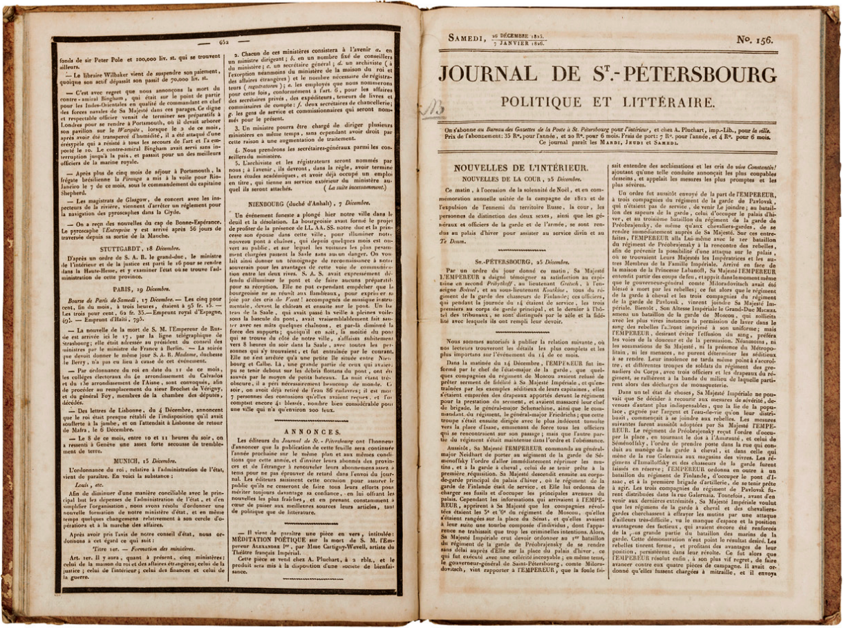 Journal de St.-Pétersbourg was a French-language newspaper, published in Saint Petersburg, Russia, from 1825 to 1918.